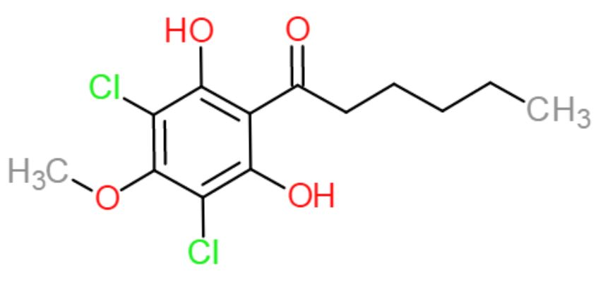 Structure of Differentiation Inducing Factor 1.